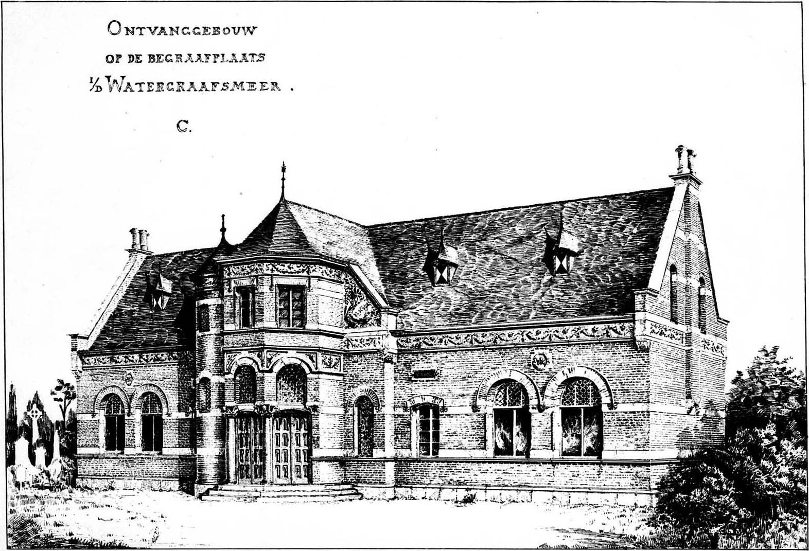 Auditorium at Nieuwe Oosterbegraafplaats, Kruislaan 126, Amsterdam (Watergraafsmeer).